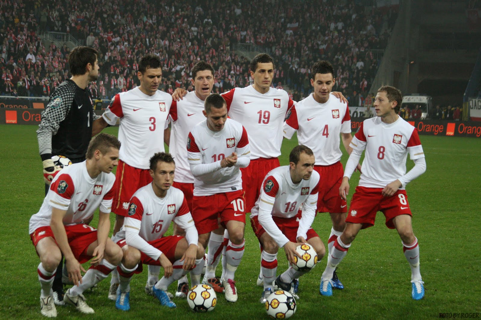 Polish football national team before match against Côte d'Ivoire